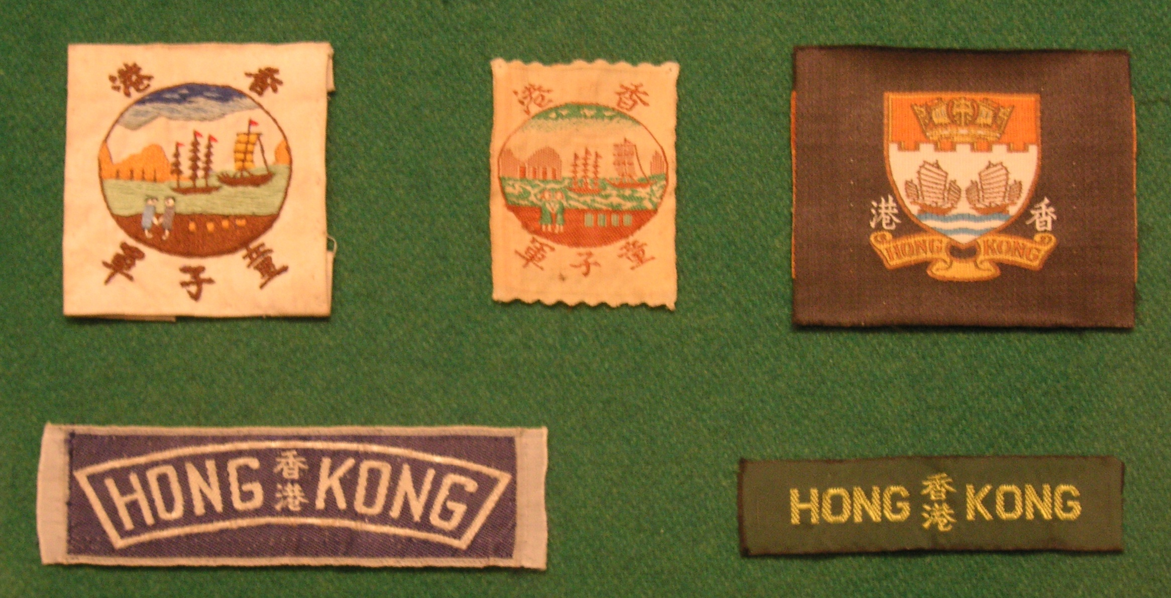 Various old Hong Kong Badges of the Scout Association of Hong Kong Now exhibited in Hong Kong Scout Centre Photograph by User:HenryLi